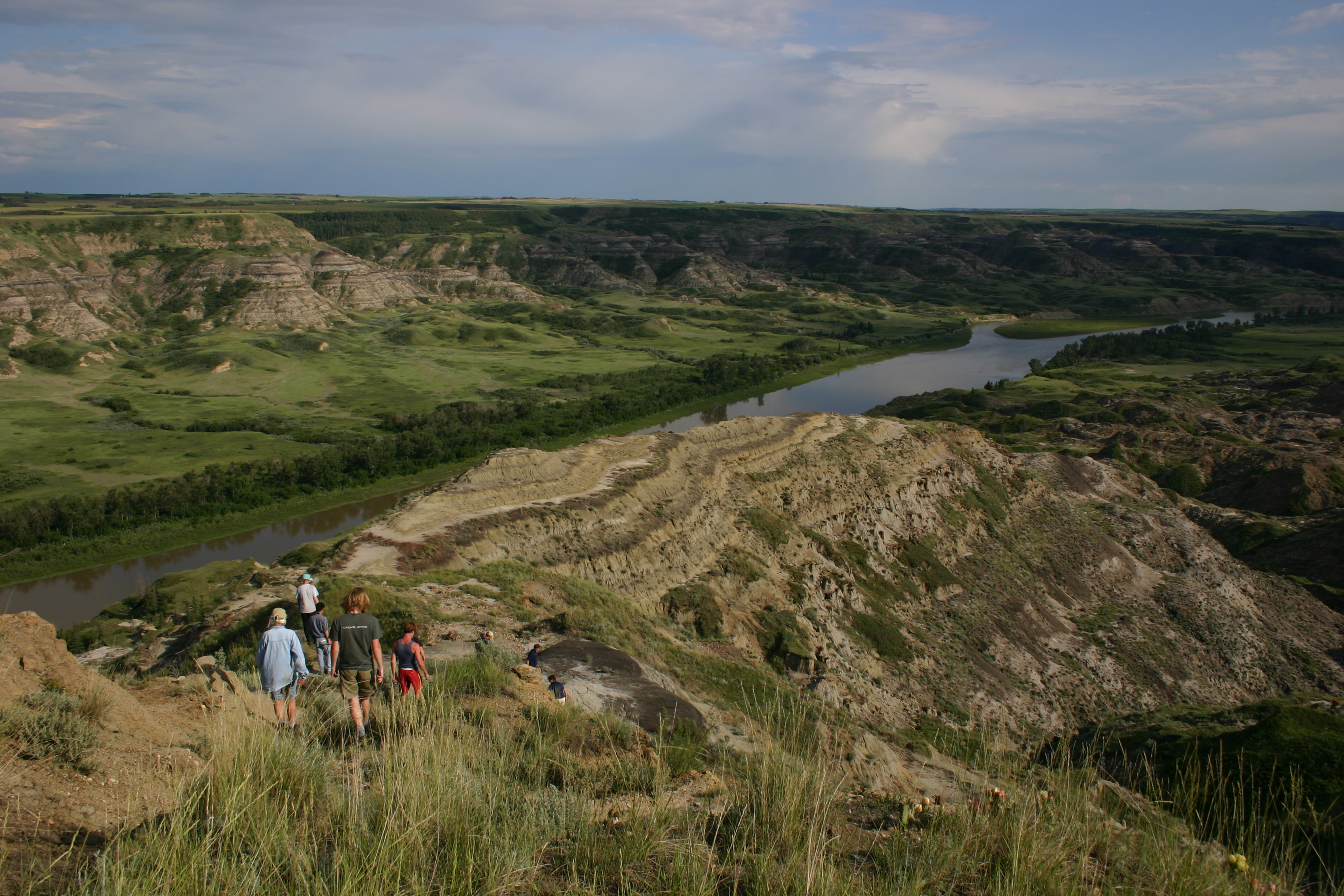 Outcrops of the Late Cretaceous (Maastrichtian) aged Horseshoe Canyon Formation at Dry Island Buffalo Jump Provincial Park, Alberta, Canada. Photo by Nick Longrich.